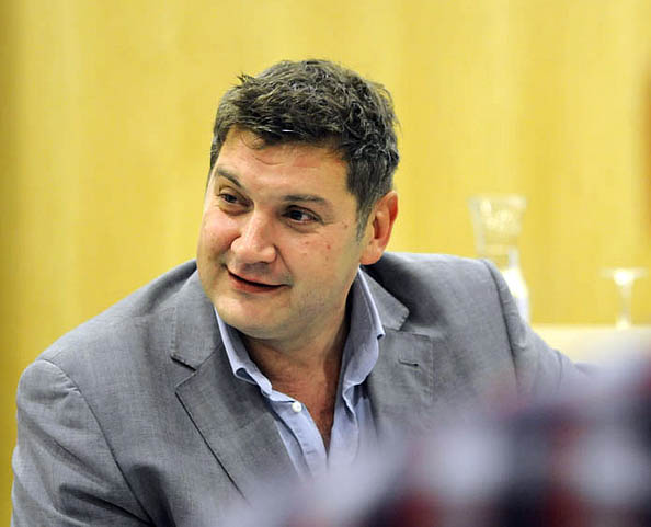 Literary gathering with Thomas Bidegain